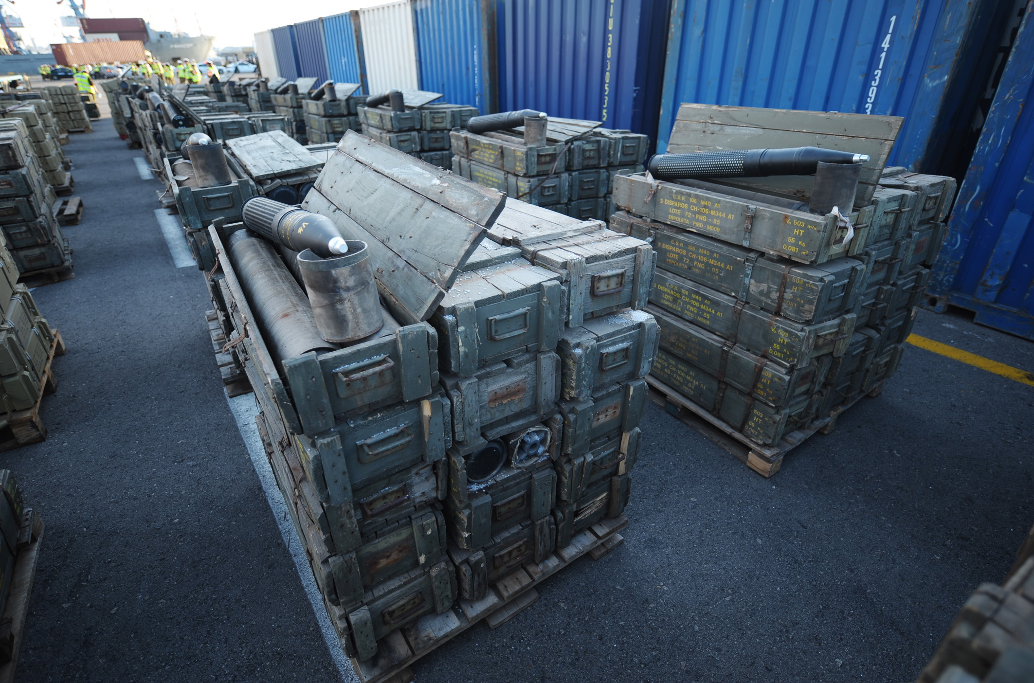 On 4 November 2009, the Israeli Navy intercepted the freighter ship Francop with over 300 tons of weapons from Iran bound for Hezbollah militants in Lebanon, hidden under sacks of Polyethylene to disguise it as civilian cargo.